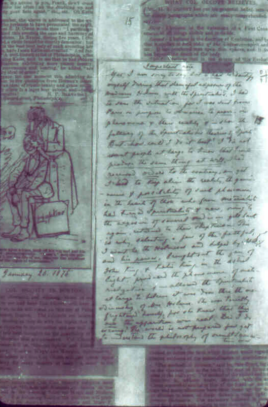 Fragment of Blavatsky's book of notes. Page 2 of the "Important Note". (Text printed on Page 73 Vol. I. "Collected Writings"). The last paragraph reads: "M brings orders to form a Society - a secret Society like the "Rosicrucian Lodge. He promises to help." H.P.